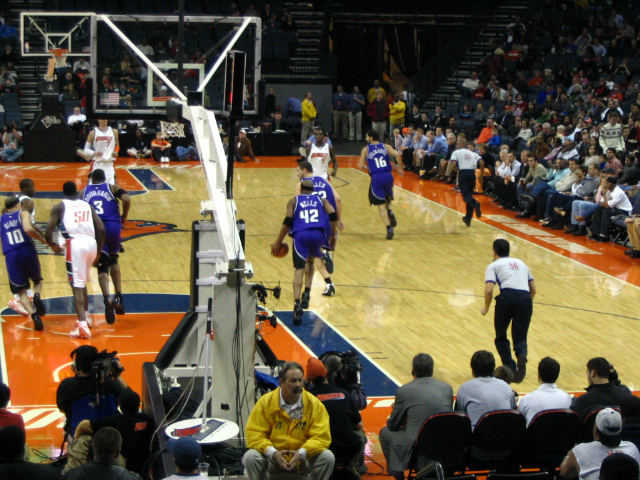 Bonzi Wells takes the ball up court for the Sacramento Kings in a game verses the Charlotte Bobcats